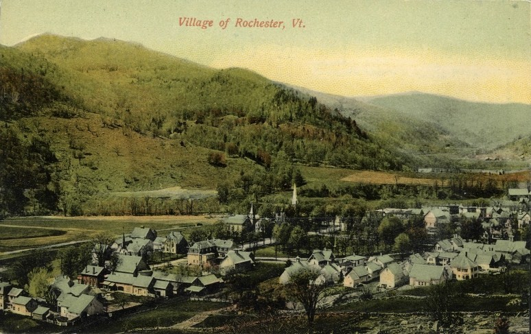 Postcard picture of village of Rochester, Vermont